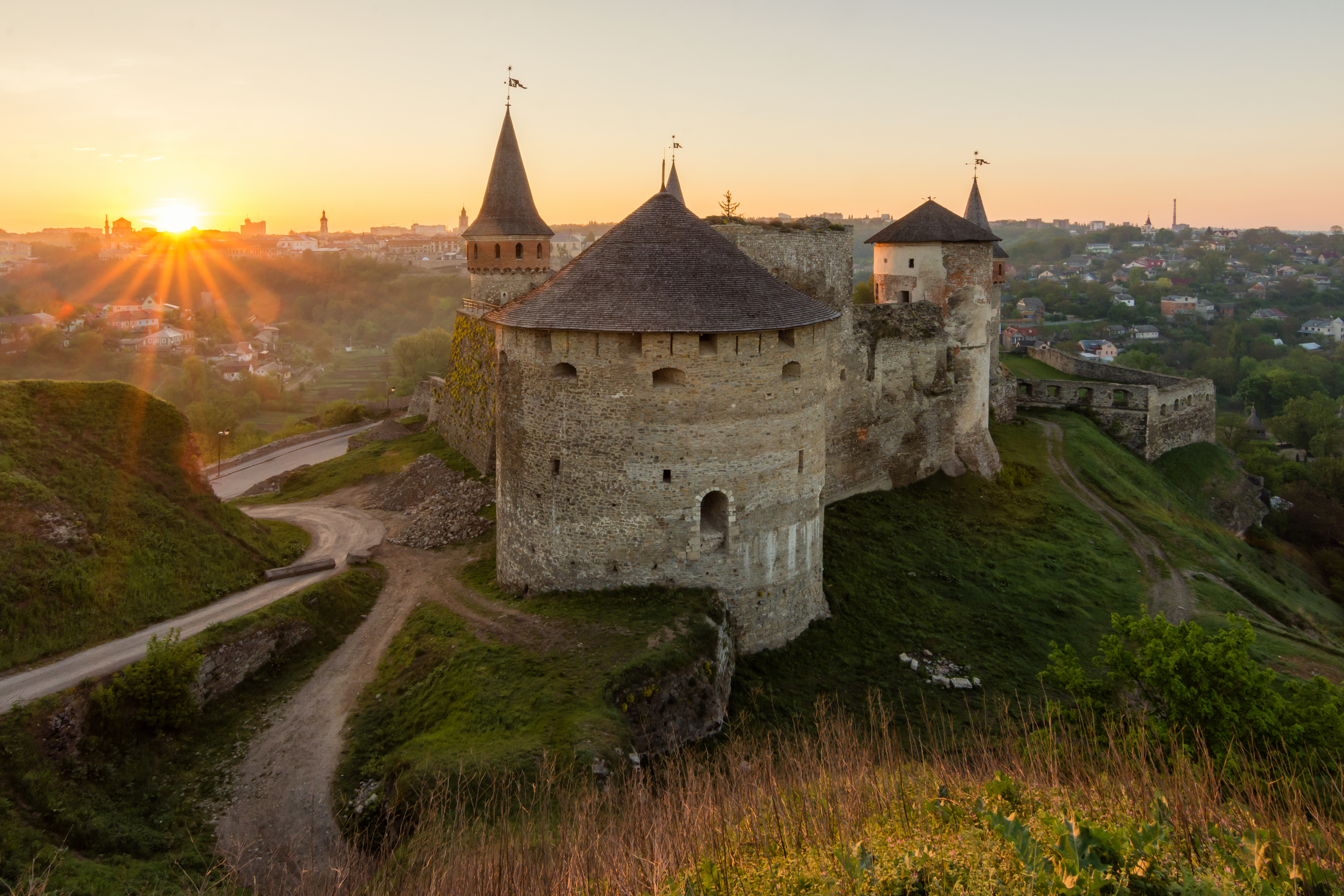 Kamianets-Podilskyi Castle, City of Kamianets-Podilskyi, Khmelnytskyi Oblast, Ukraine.